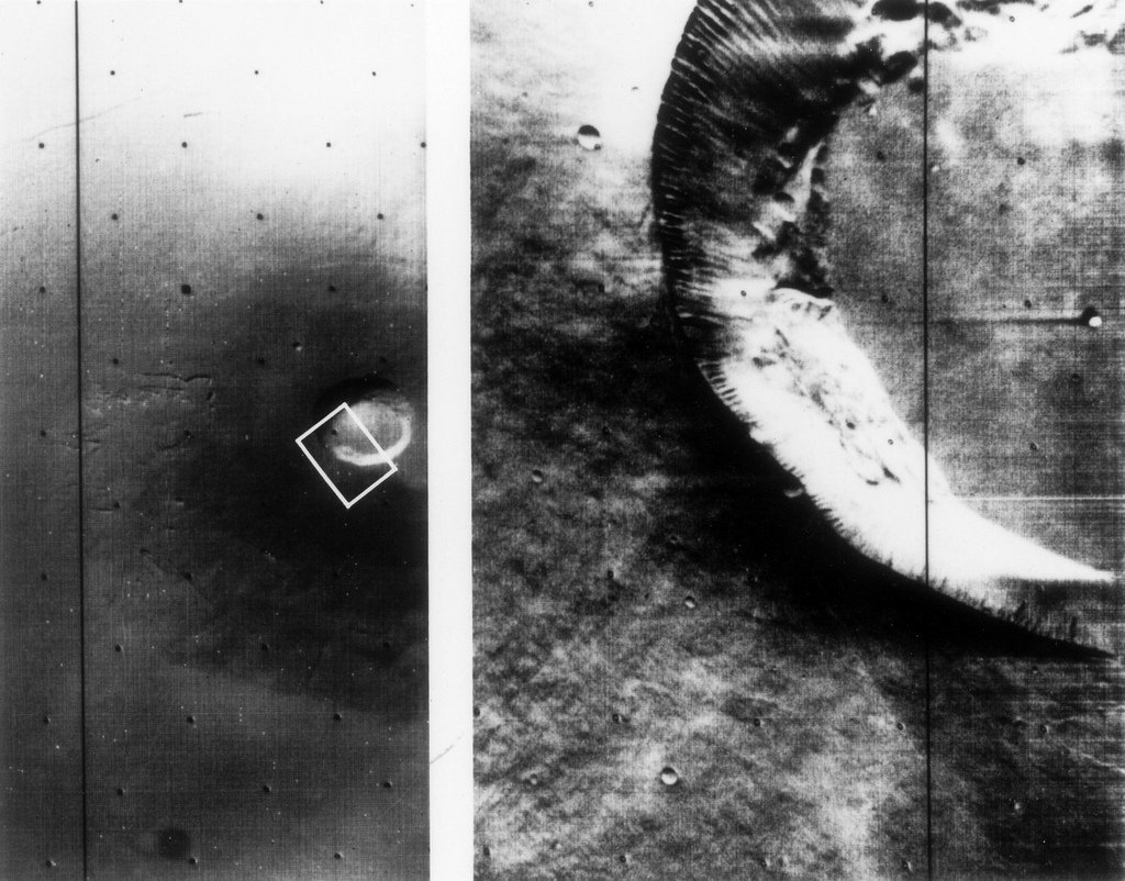 (1971) A Martian shield volcano, approximately 25 miles across at the crater, photographed consecutively by Mariner 9 with the wide-angle and telephoto lenses. The summit crater and groves down the flank probably were produced by subsidence flowing subsurface movement of magma. Mariner 9 was the first spacecraft to orbit another planet. The spacecraft was designed to continue the atmospheric studies begun by Mariners 6 and 7, and to map over 70% of the Martian surface from the lowest altitude (1500 kilometers [900 miles])and at the highest resolutions (1 kilometer per pixel to 100 meters per pixel) of any previous Mars mission Mariner 9 was launched on May 30, 1971 and arrived on November 14, 1971.